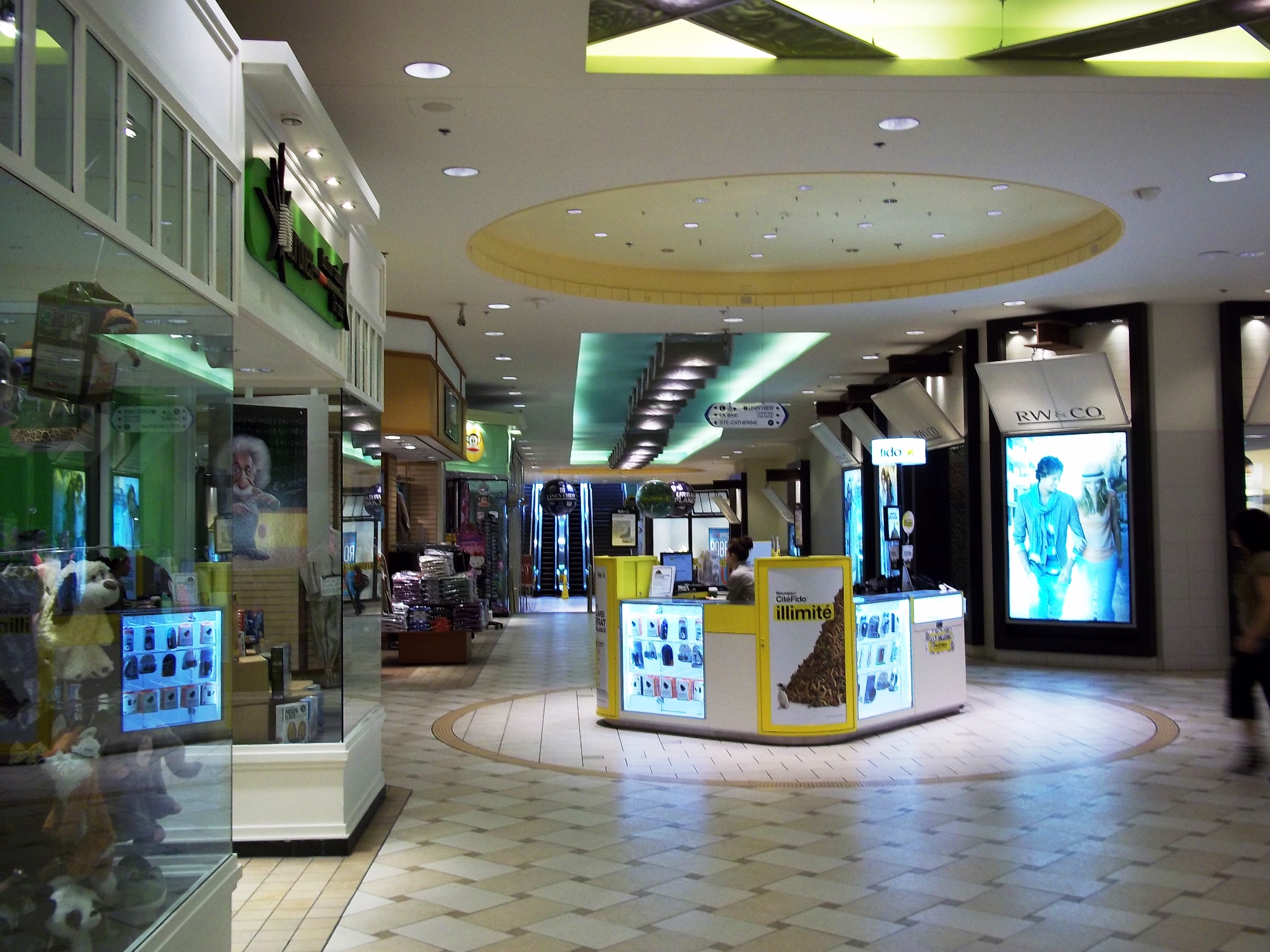 A view of Promenades Cathédrale in Montréal